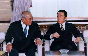 Masahide Ōta, Governor of Okinawa Prefecture, talked with Ryūtarō Hashimoto, Prime Minister, at the Prime Minister's Official Residence in Chiyoda Ward, Tōkyō Metropolis on March 25, 1997.